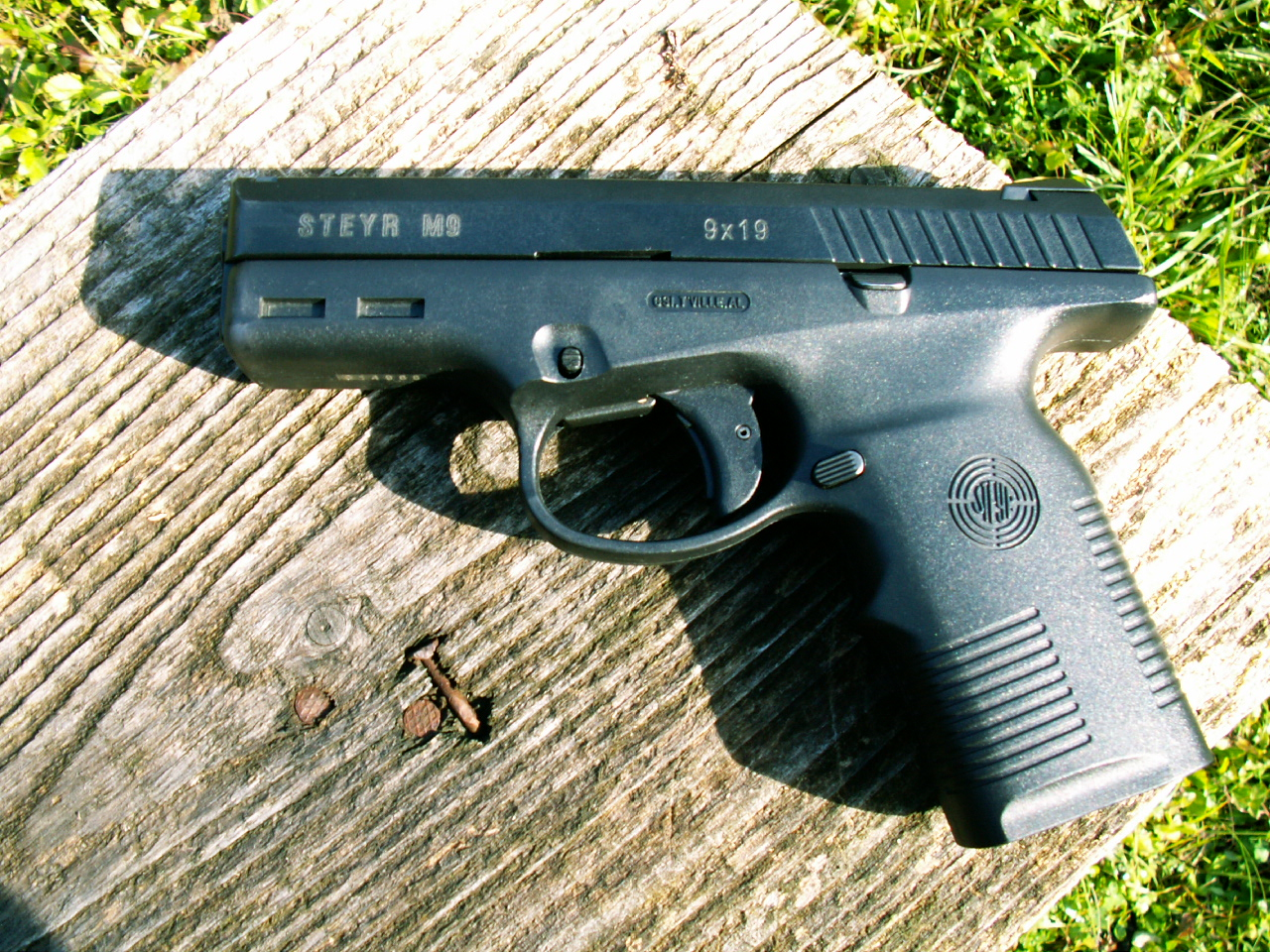 Steyr M9 semi-automatic pistol.